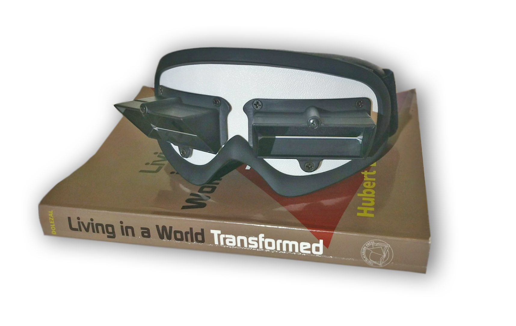 wide angle upside down goggles (147°x68° field of view). It's new design after Hubert Dolezal prototype